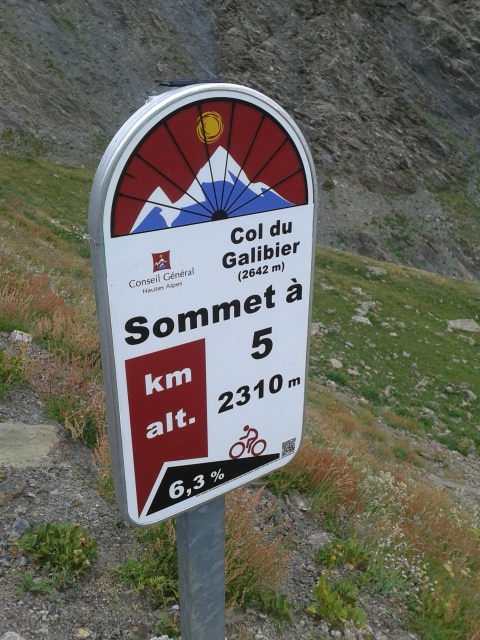 2015 Mountain pass cycling milestone - Galibier from Col du Lautaret